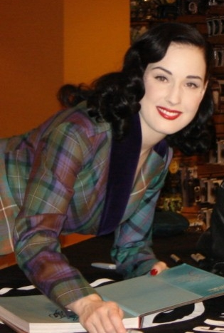 Photo of author/burlesque artist Dita Von Teese.